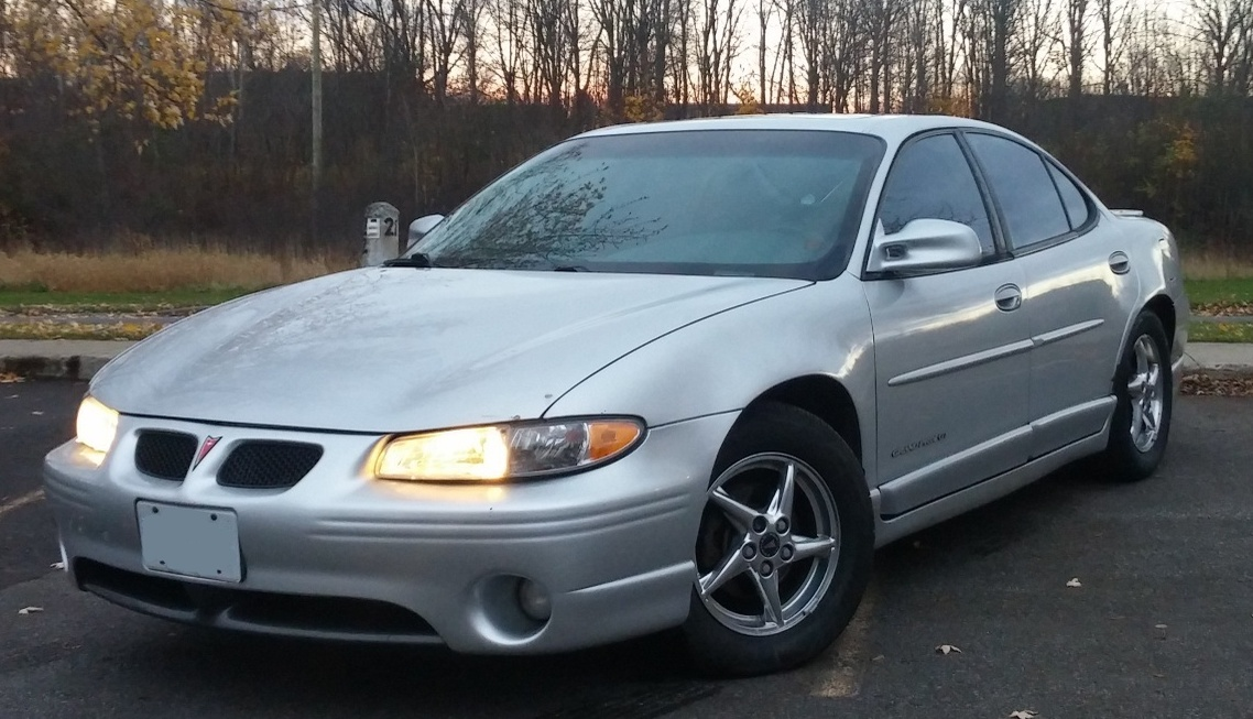 A photo I took of a Pontiac Grand Prix GT.